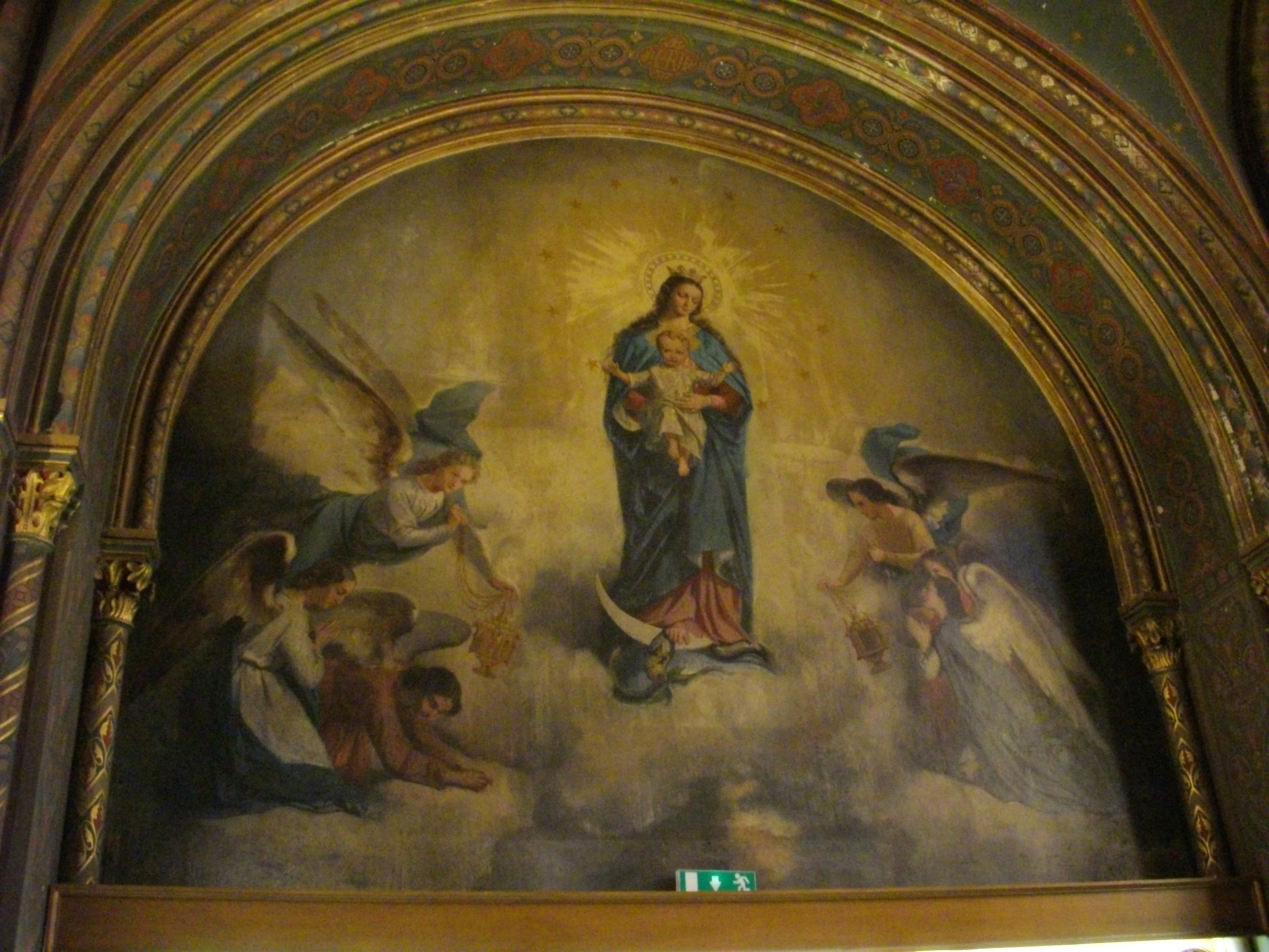 Former jesuistic chapel of Saint Clement abbey in Metz (Moselle, France) ; "Virgin presenting" by Auguste Hussenot .